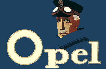 Poster related to Opel, the German car manufacturer, designed in (or around) 1911 by the German arstist Hans Rudi Erdt